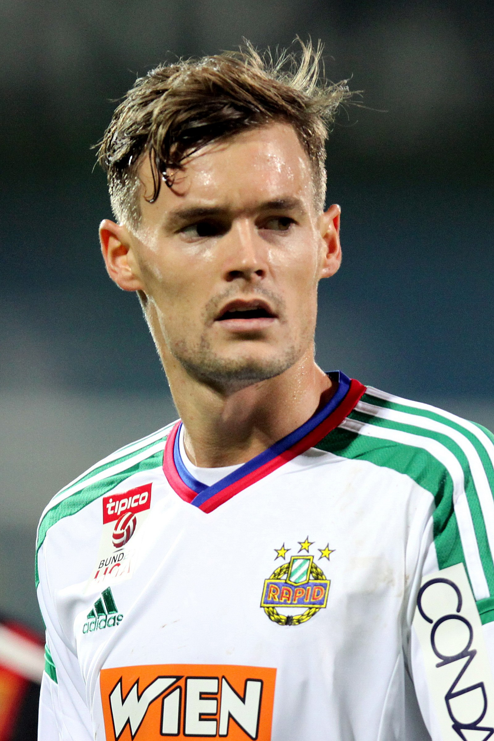 Match of the Austrian Football Bundesliga – FC Admira Wacker Mödling (red shirts) vs. SK Rapid Wien (white shirts) 2-1 (0-1) on 2015-12-02 in Bundesstadion Sudstadt – The photo shows Stefan Stangl.